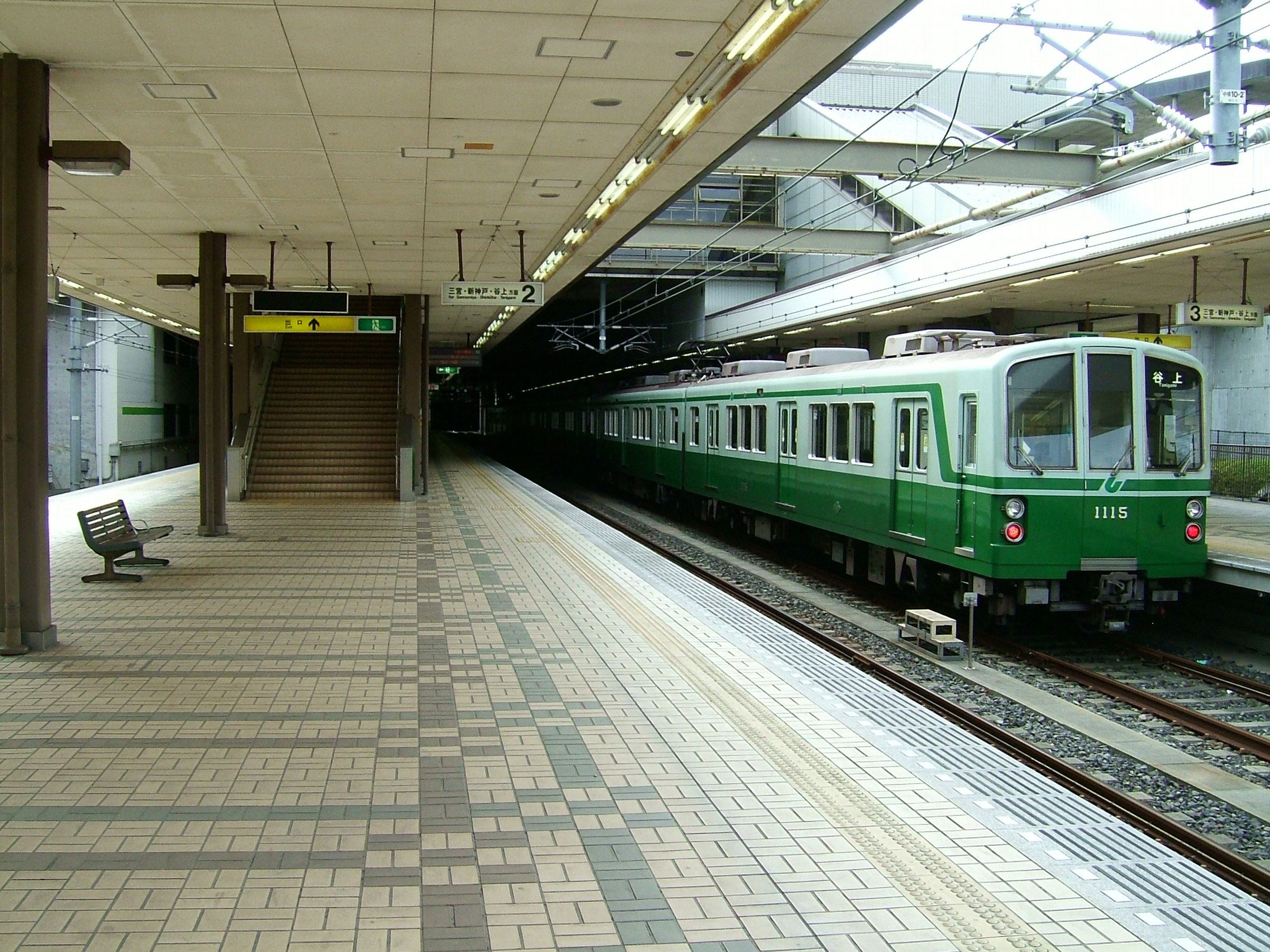 The platforms at Seishin-Chuo Station on the Kobe Municipal Subway Seishin-Yamate Line